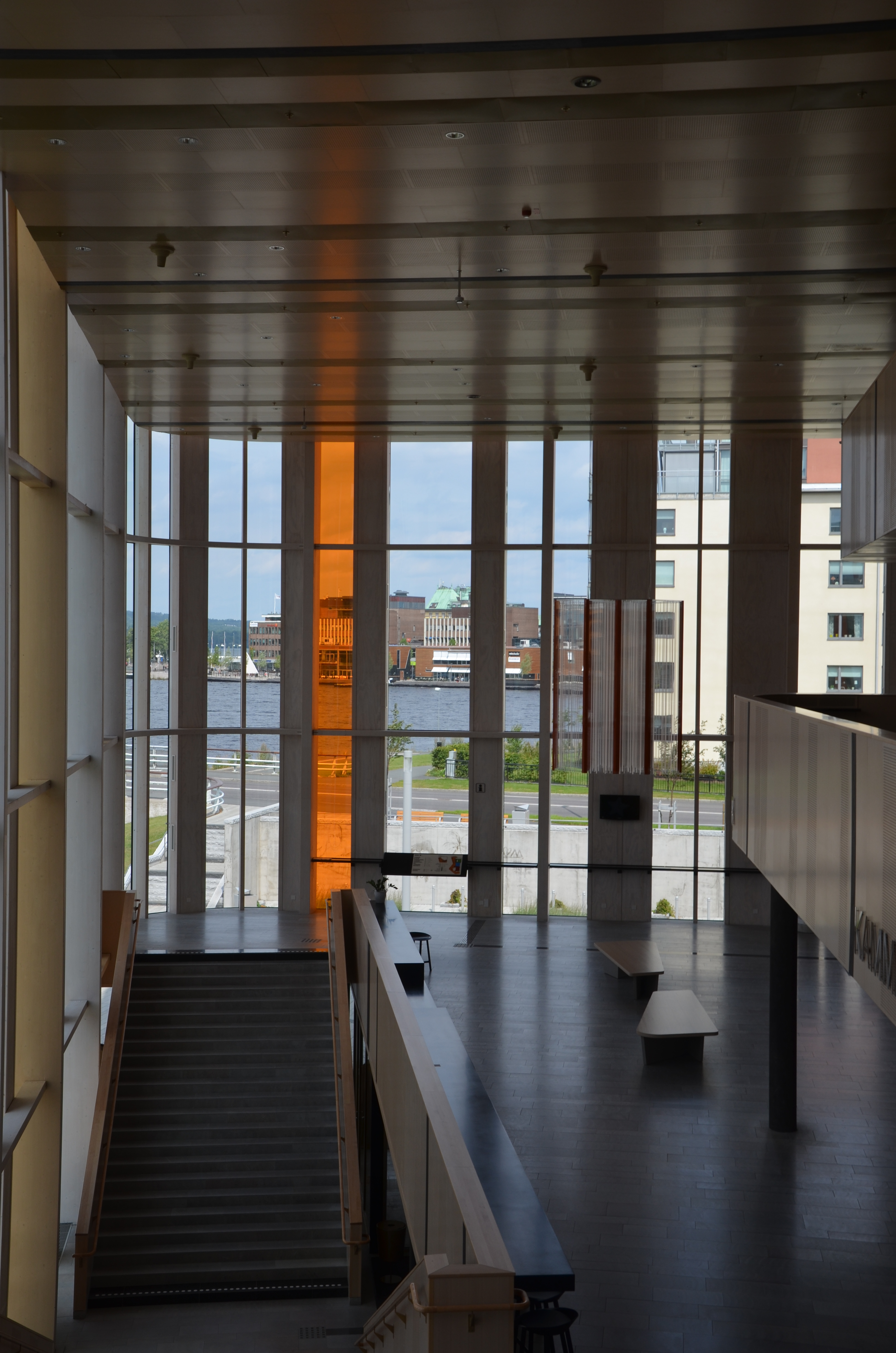 Jönköping. Kulturhuset Spira, interiör med utsikt över Munksjön